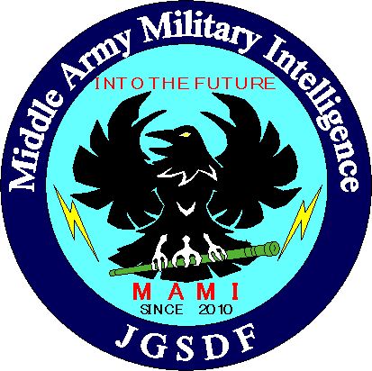 middle army military lntelligene